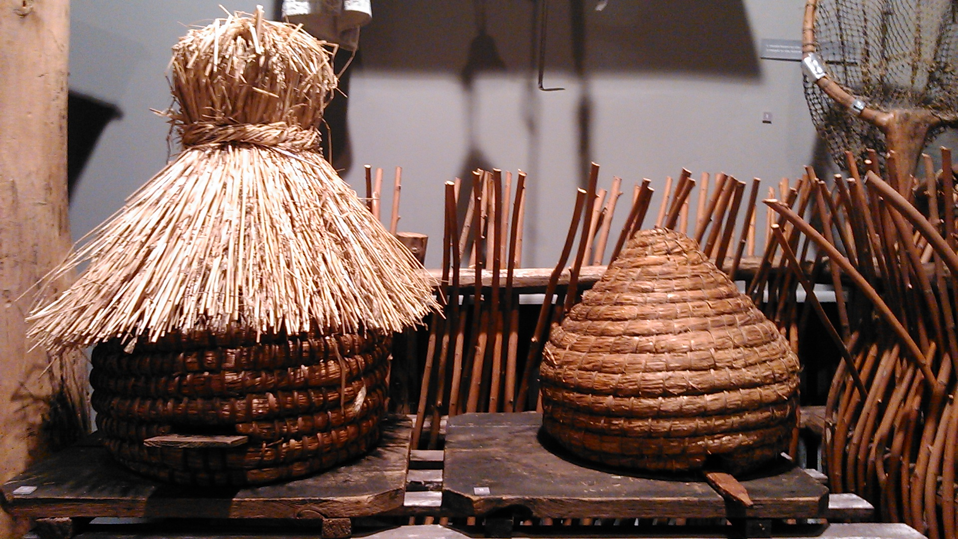 Beehives. Ethnographic Museum of Toruń, Poland